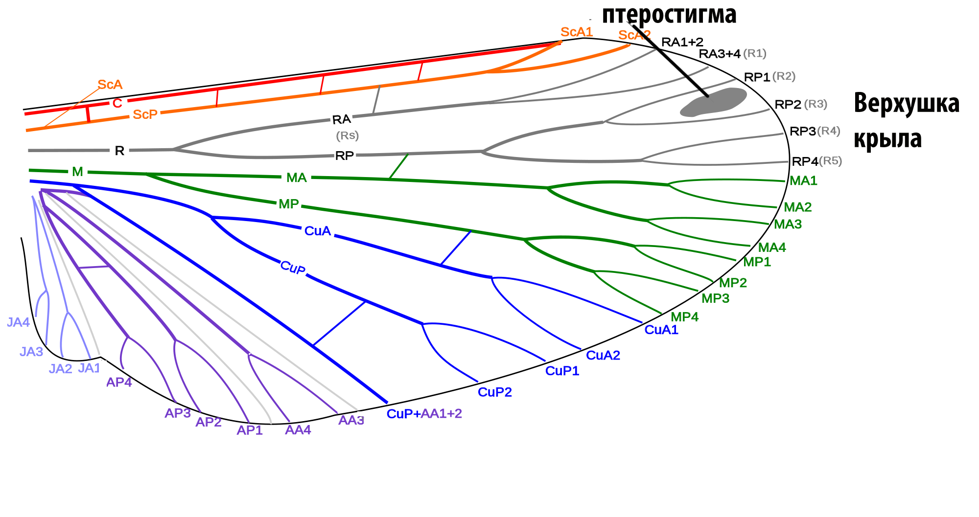 A diagram of the average venation of insect wings